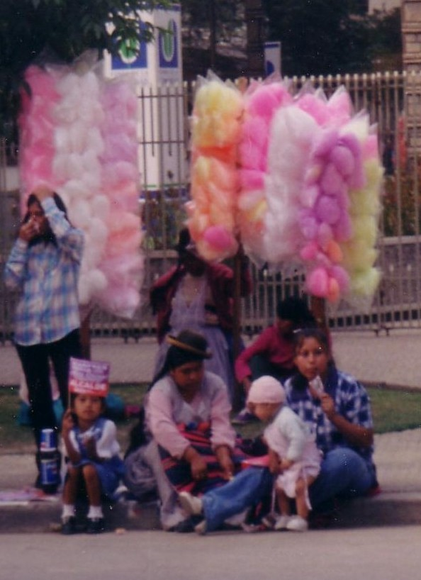 woman selling cotton candy, Cochabamba, Bolivia